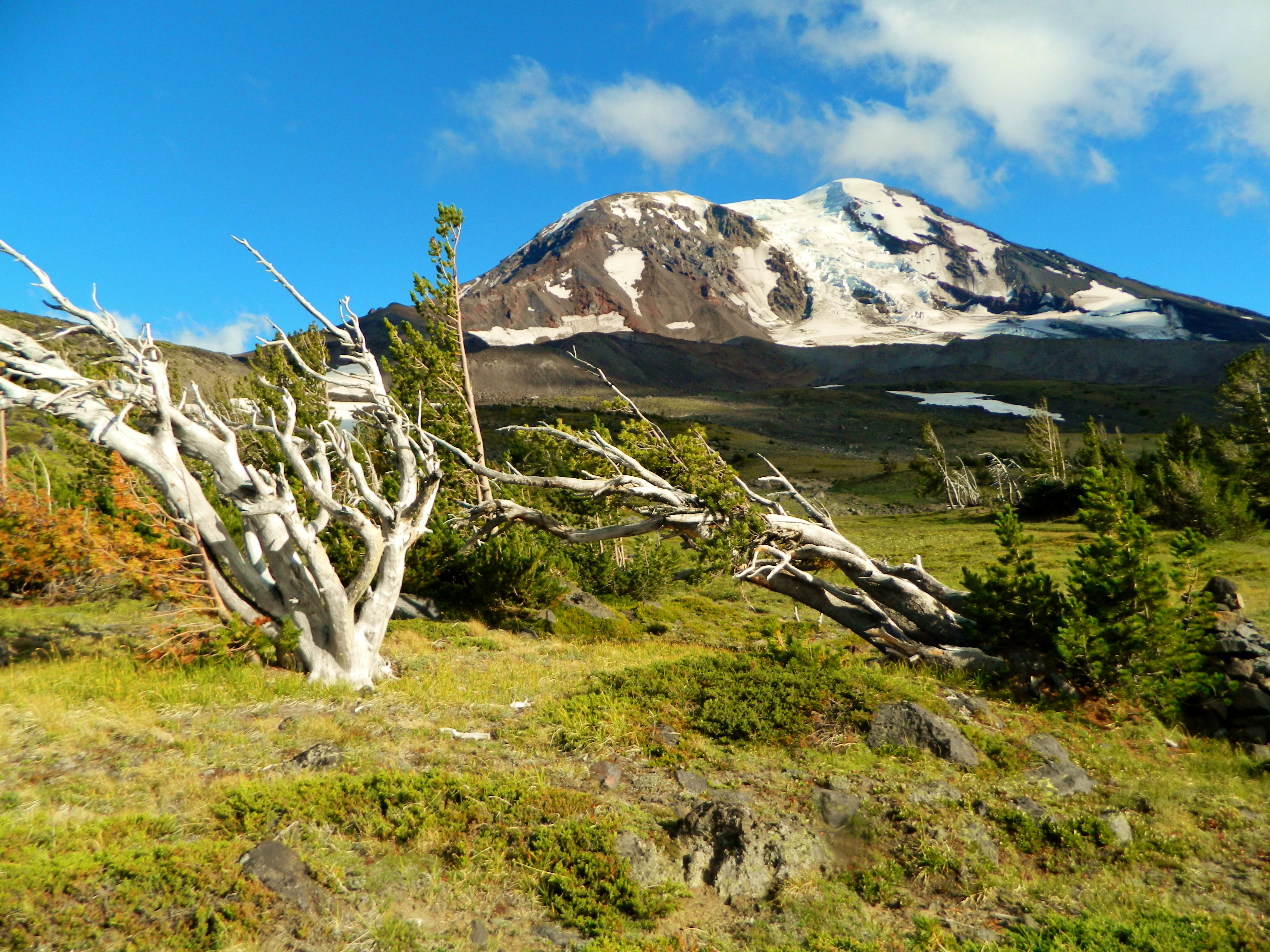 Mount Adams Wilderness, Gifford Pinchot National Forest, WA